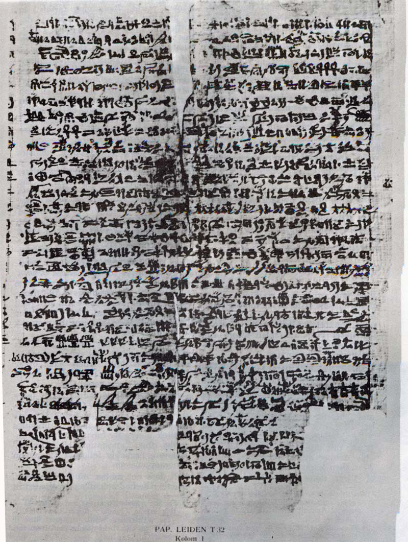 Alchemical manuscript.